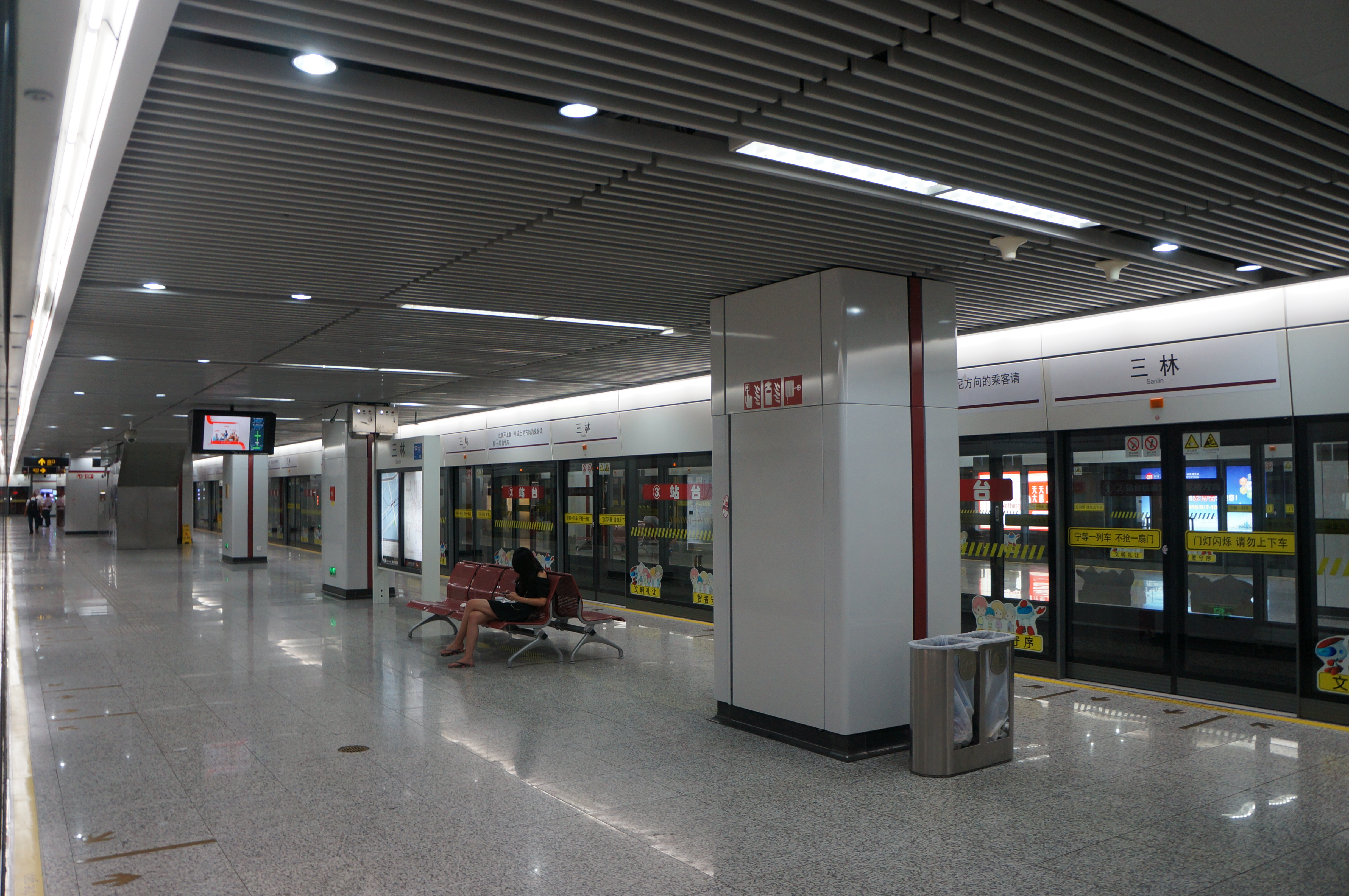 201609 Platform of Sanlin Station